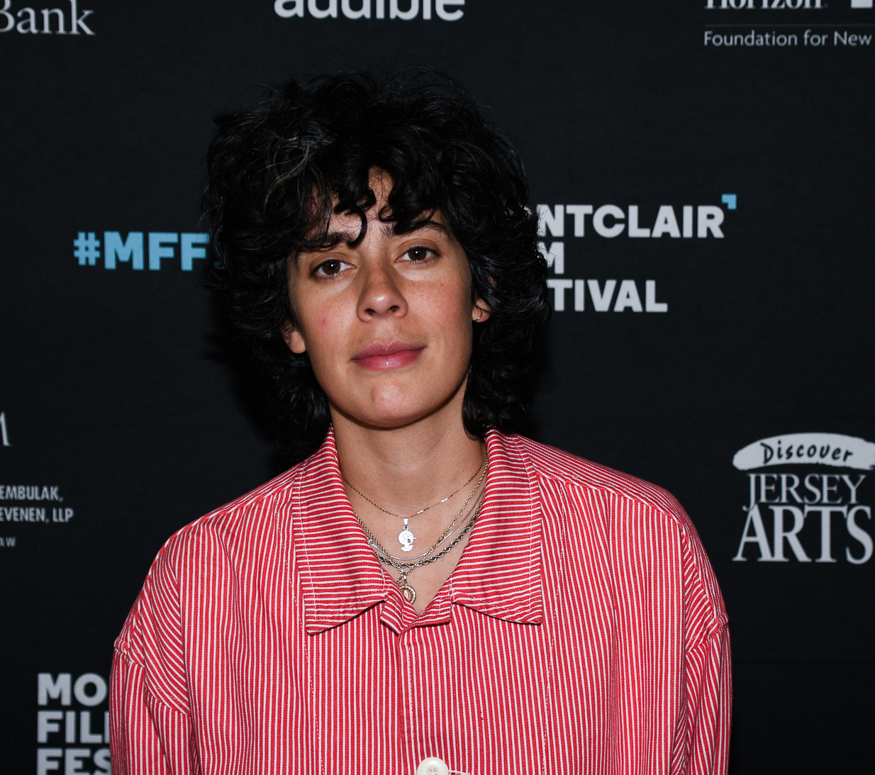 Photography by Devin Gutierrez